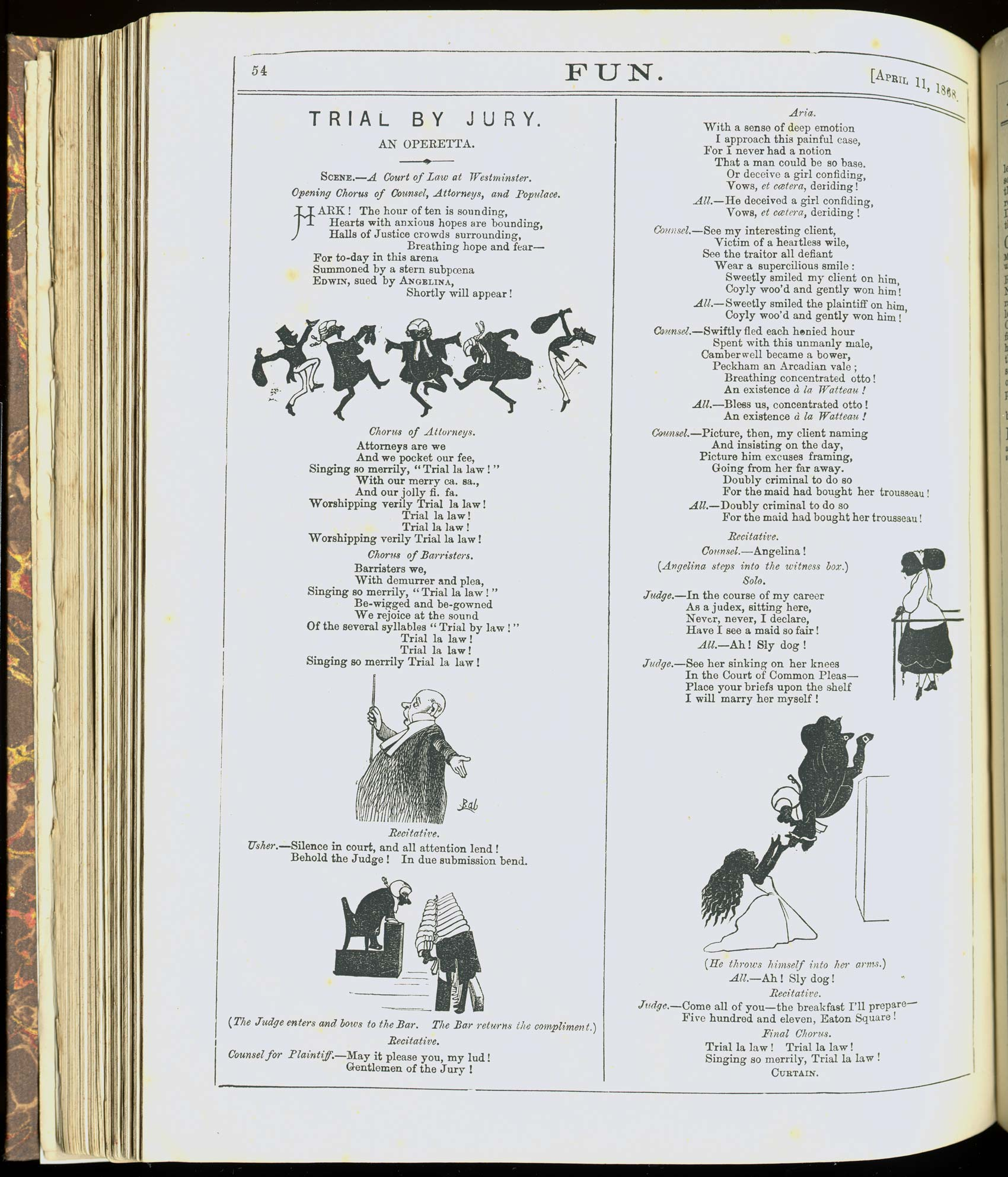 Gilbert's original draft of Trial by Jury: A short comic piece published in Fun 1868.